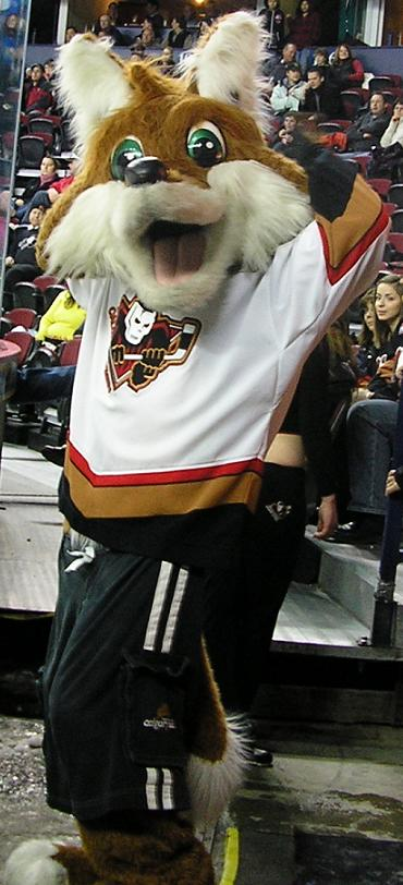 Picture of Calgary Hitmen mascot, Farley the Fox.